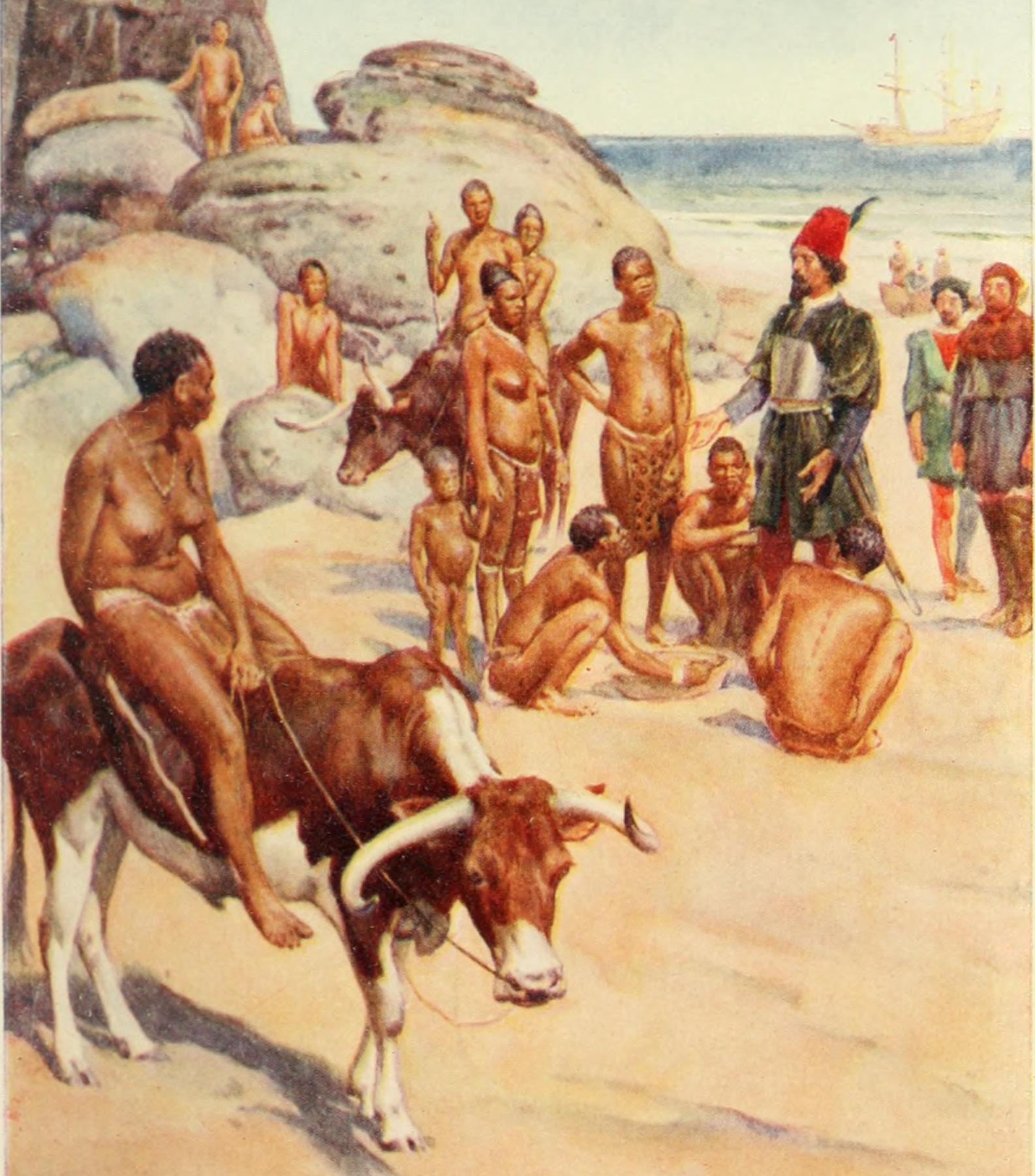 The Portuguese and Hottentots